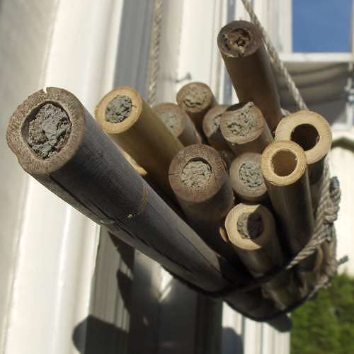 Bamboo insect hotel used by Mason bee Osmia bicornis